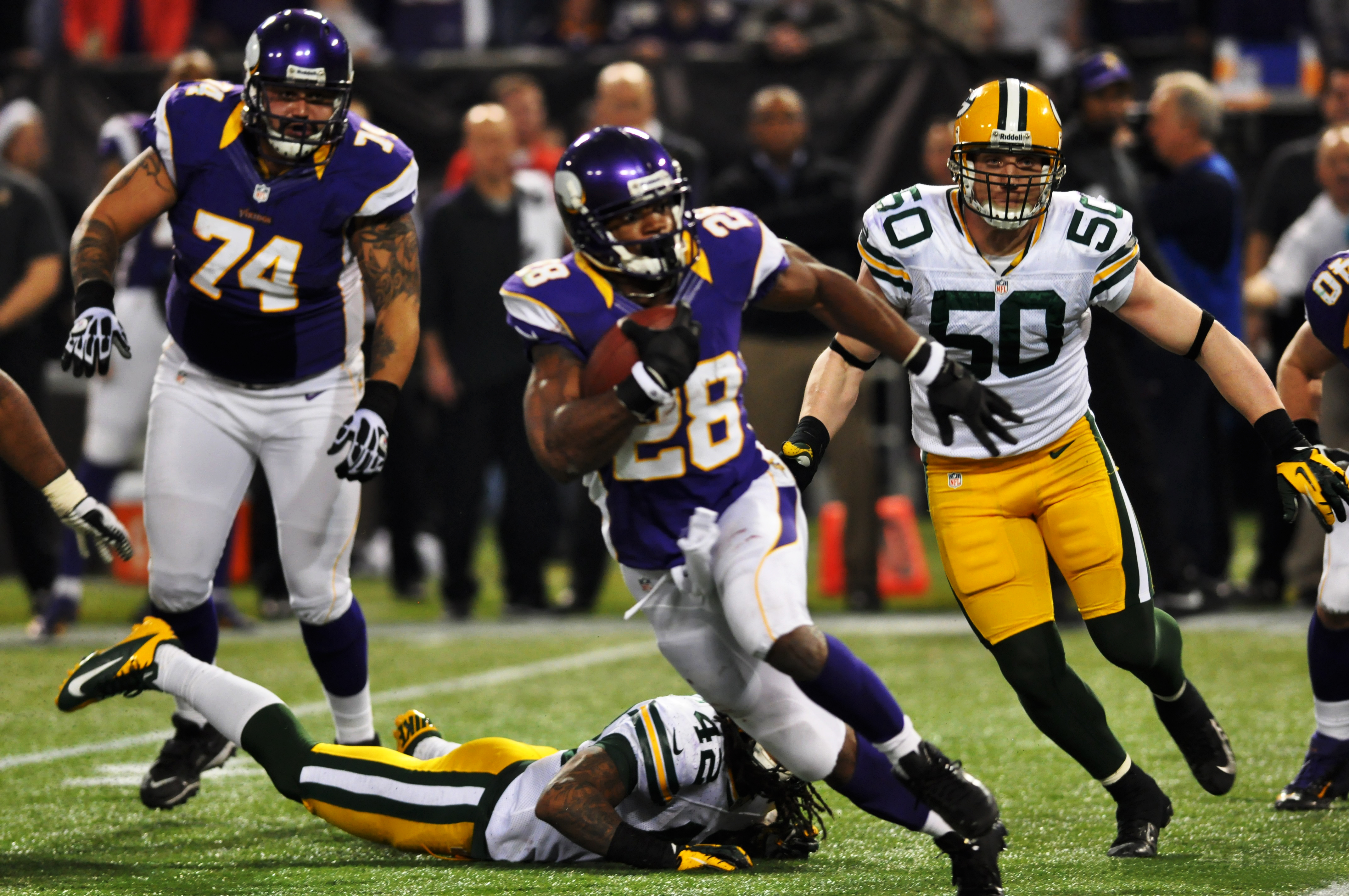 Adrian Peterson rushing 2097 yards in a season during the last 2012 NFL season vs. Green Bay on December 30th 2012